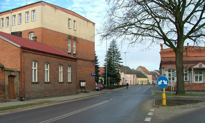 Center of Wielen - City Hall.